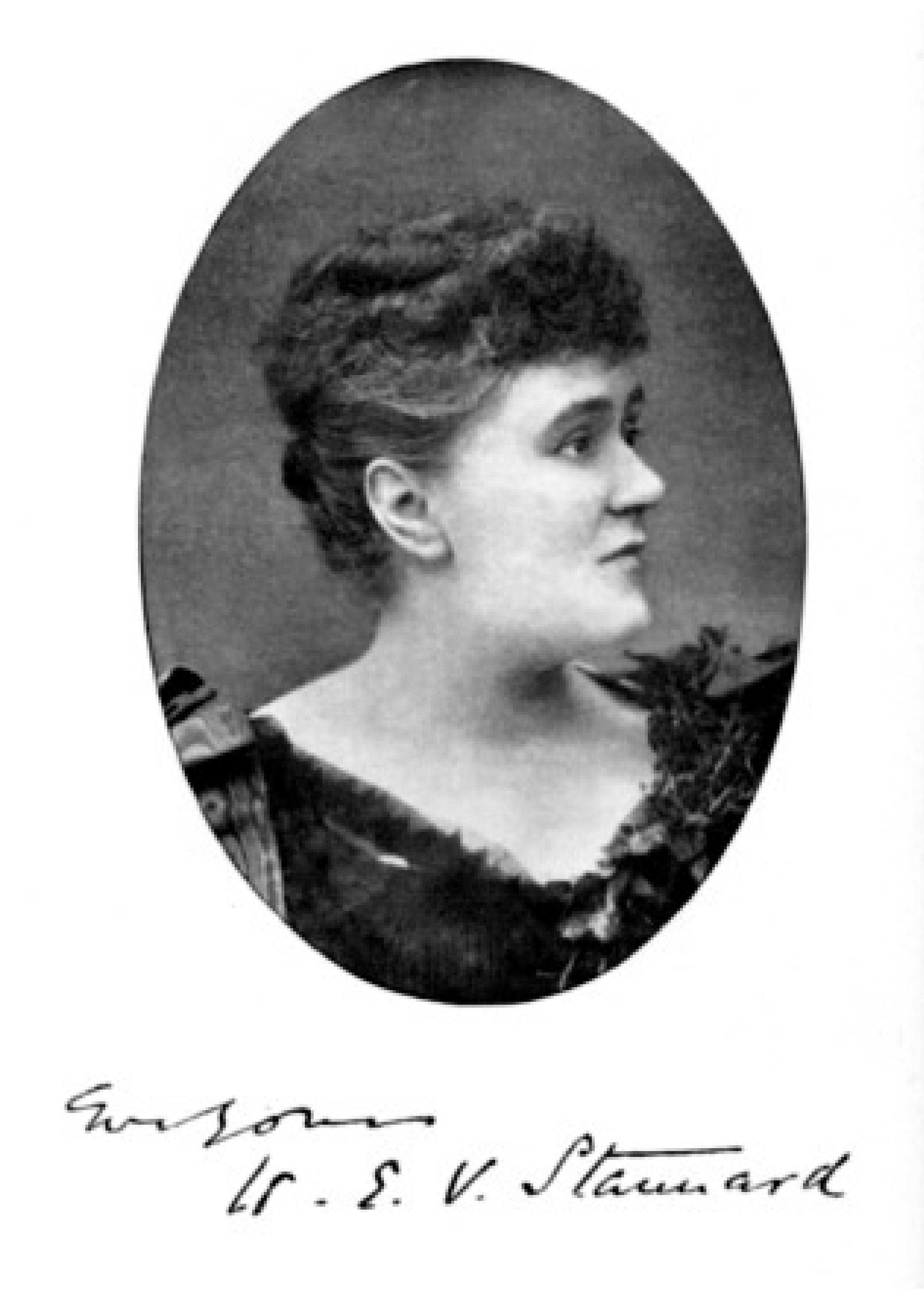 John Strange Winter was the pen-name of Henrietta Eliza Vaughan Stannard (January 13, 1856, York – 1911), an English novelist.